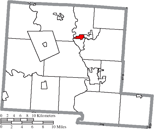 Map of the municipal and township boundaries of Pickaway County, Ohio, United States, as of the 2000 census, with the location of the village of South Bloomfield highlighted. Township borders are shown only in unincorporated areas in order to differentiate incorporated and unincorporated areas more clearly.